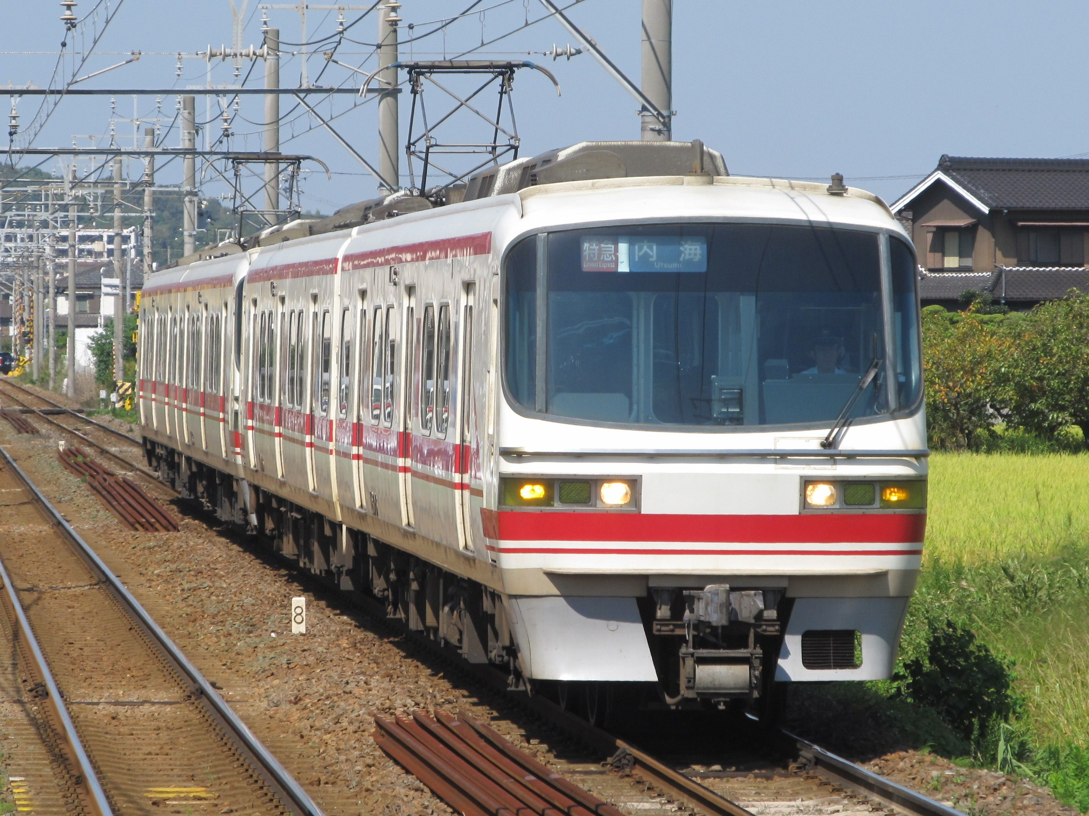 Meitetsu 1800 series and 1850 series. Limited Express bound for Utsumi.